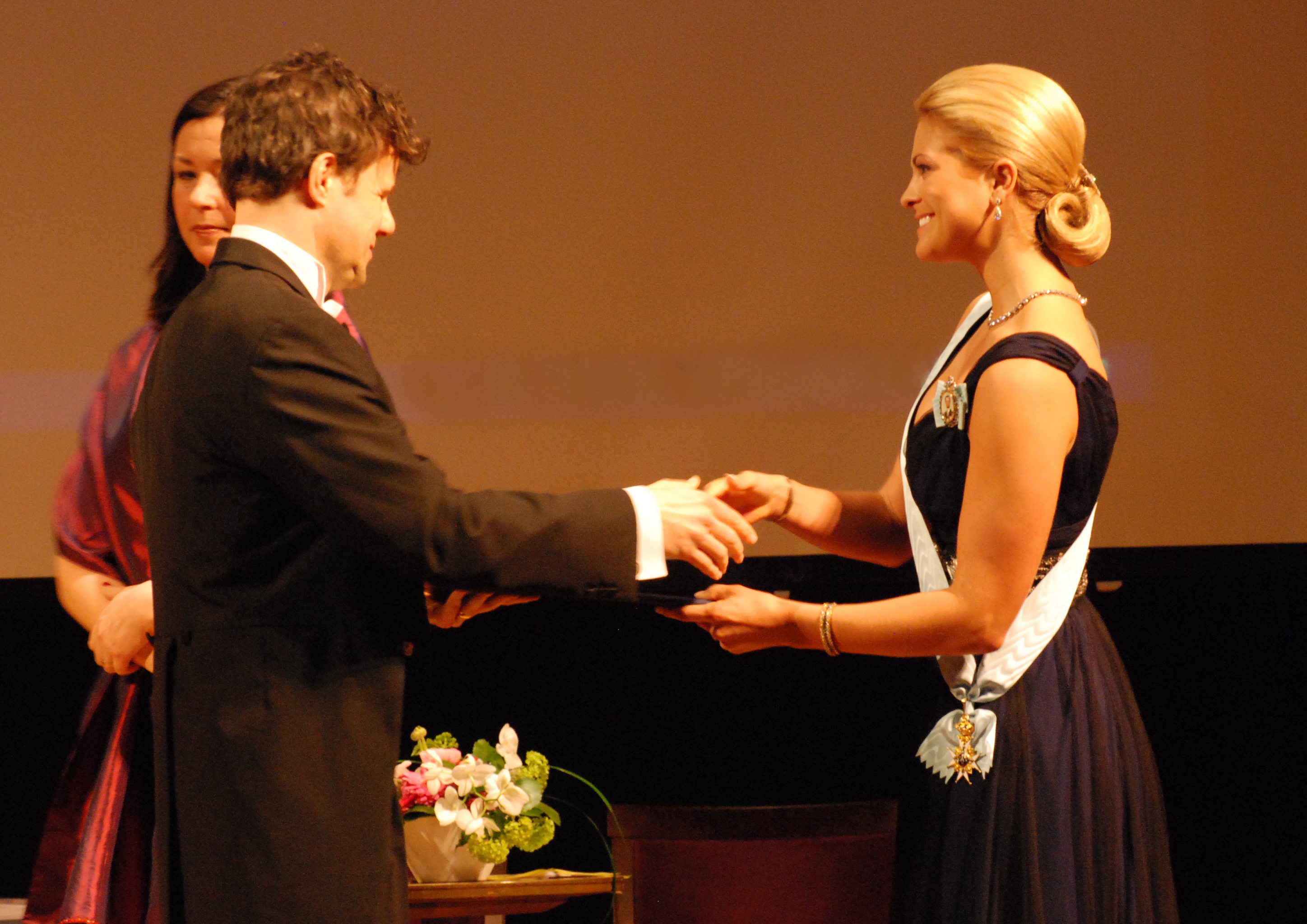 Ceremonial Meeting of the Royal Swedish Academy of Sciences: award ceremony of the Göran Gustafsson prize 2010: Princess Madeleine awards the price to